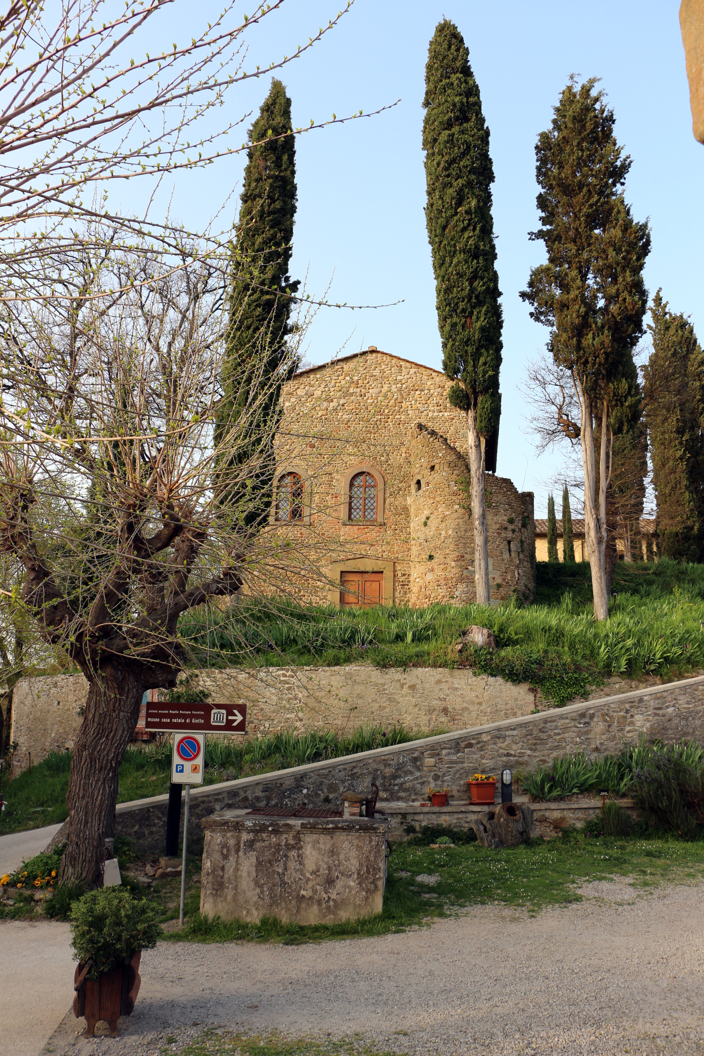 Casa di Giotto